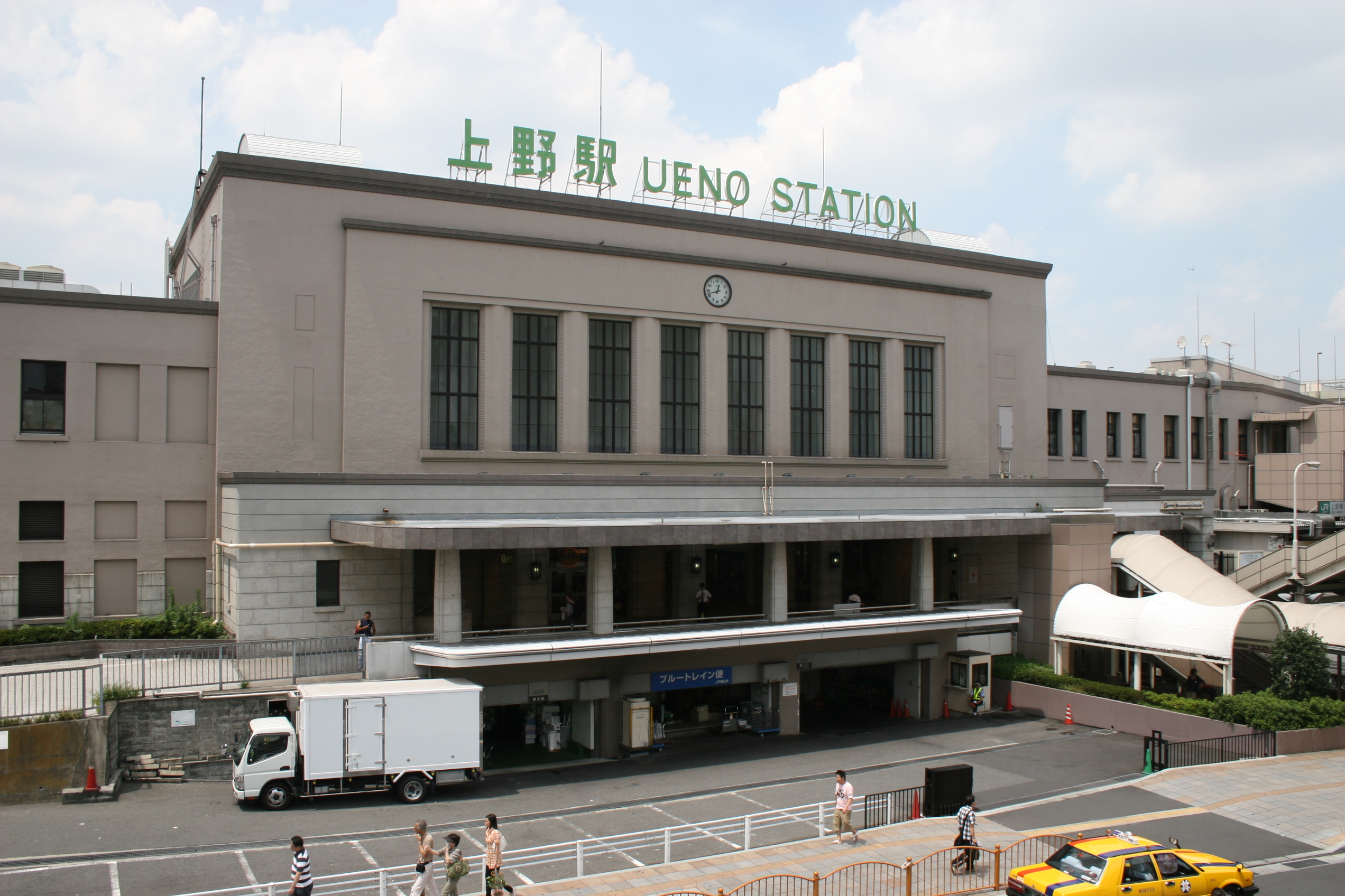 Main building of Ueno railway station, Taito, Tokyo